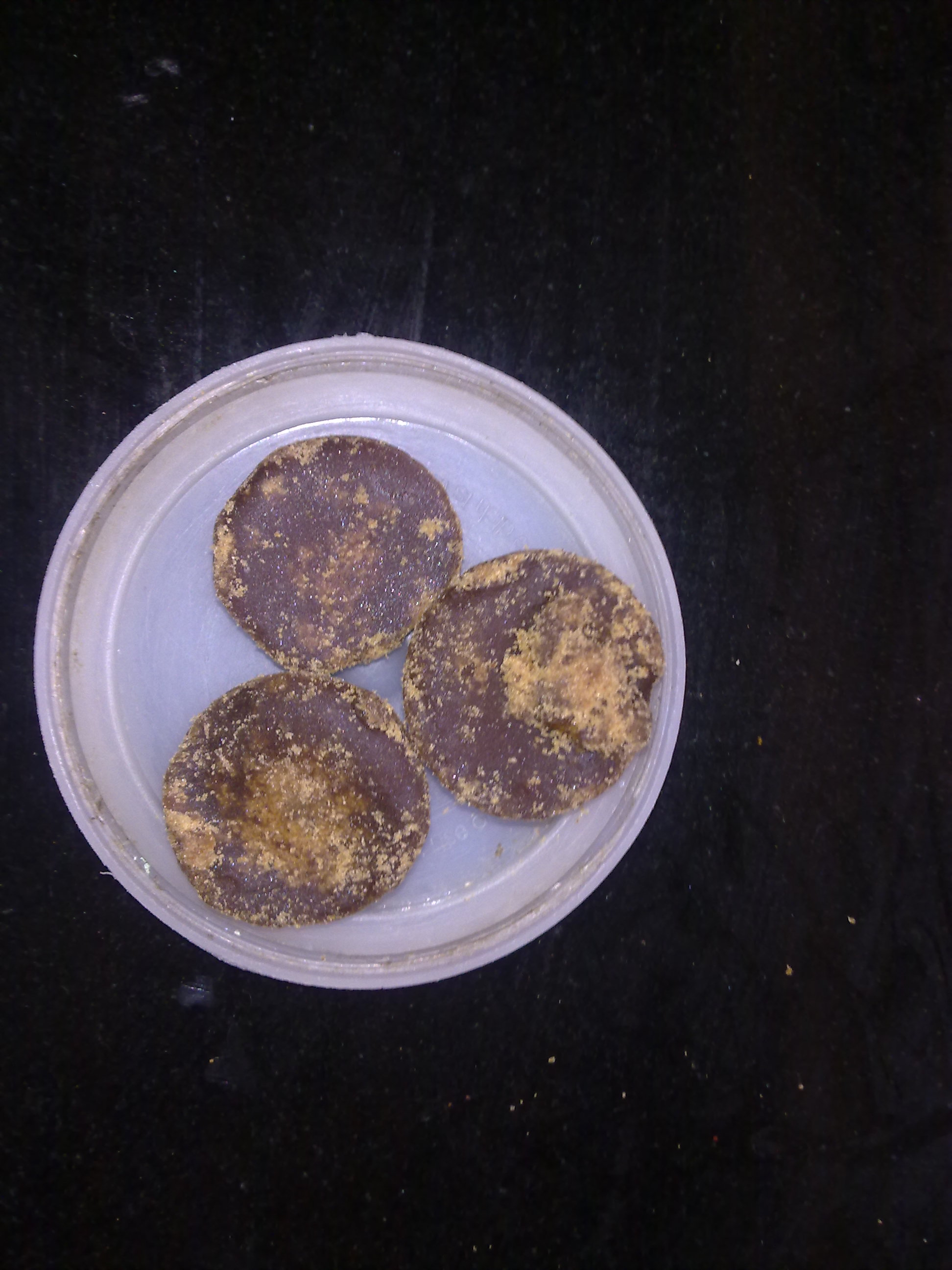 Picture showing karuppatti jaggery which contains spices and condiments.